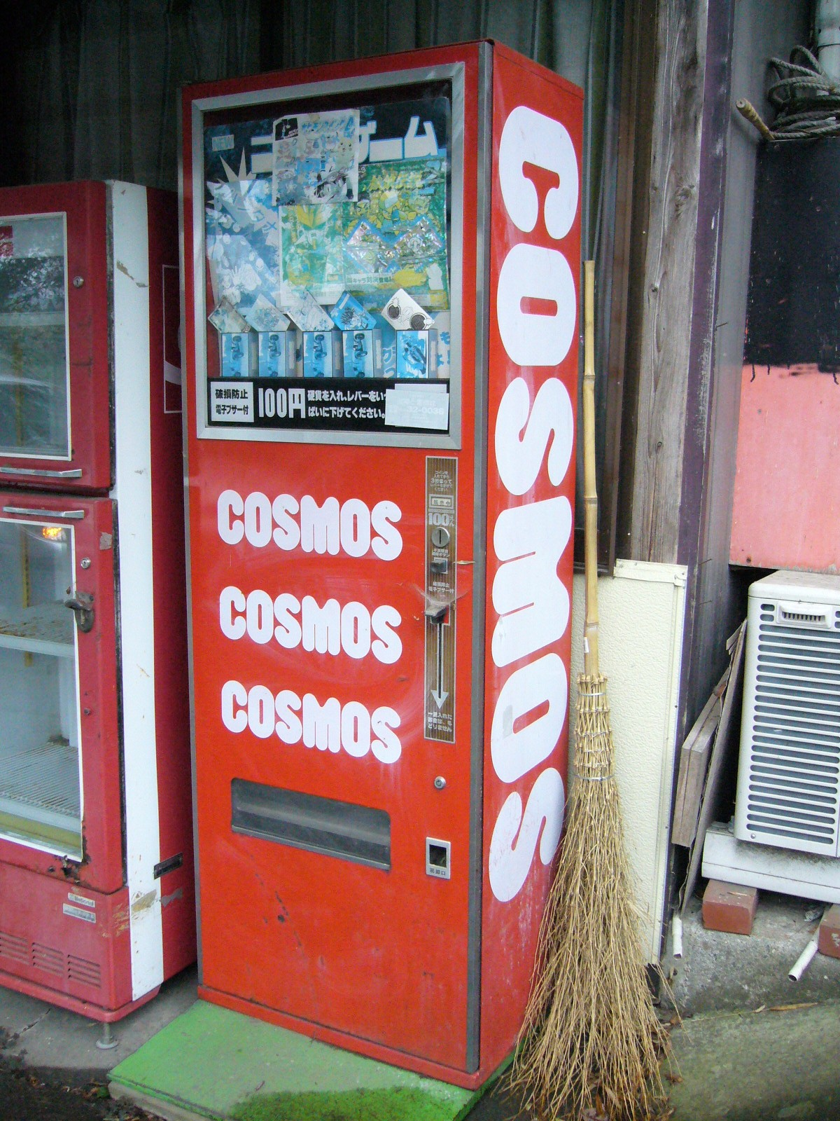 cosmos-vending-machine,motegi-town,japan